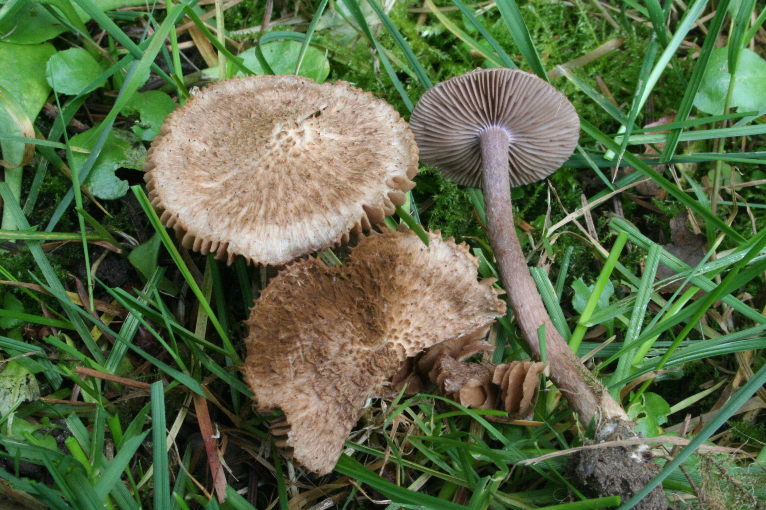 Inocybe obscura (= I. cincinnata) in a park near Paris, France.